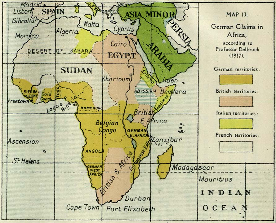 German Claims in Africa according to Professor Delbruck